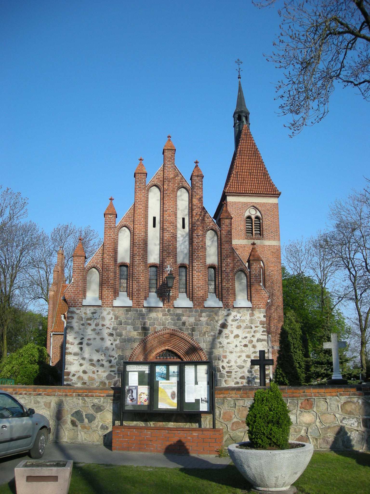 Church of St. Bartholomew in Unisław, Poland.